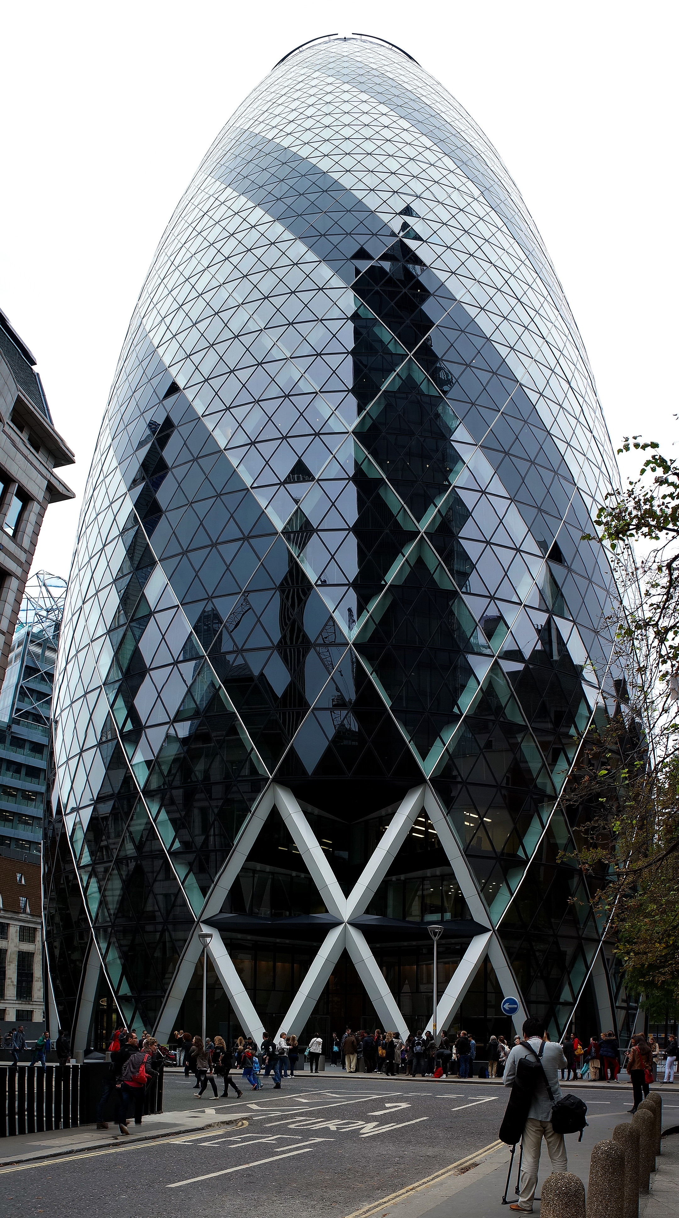 The Gherkin building of London, shot with a vertical panorama.